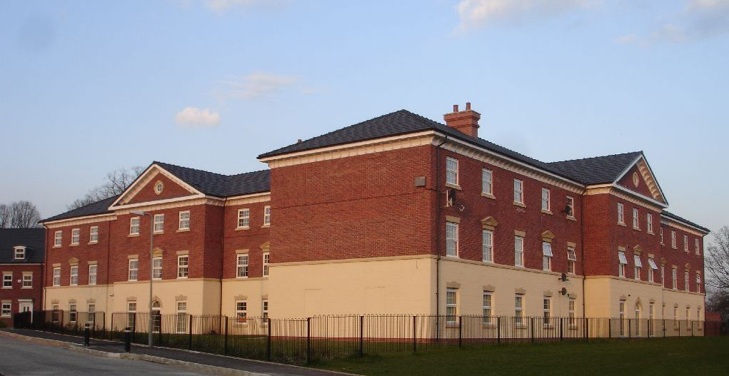 Author: Spicke01. Acton Hall - rebuilt in 2005 using modern materials.